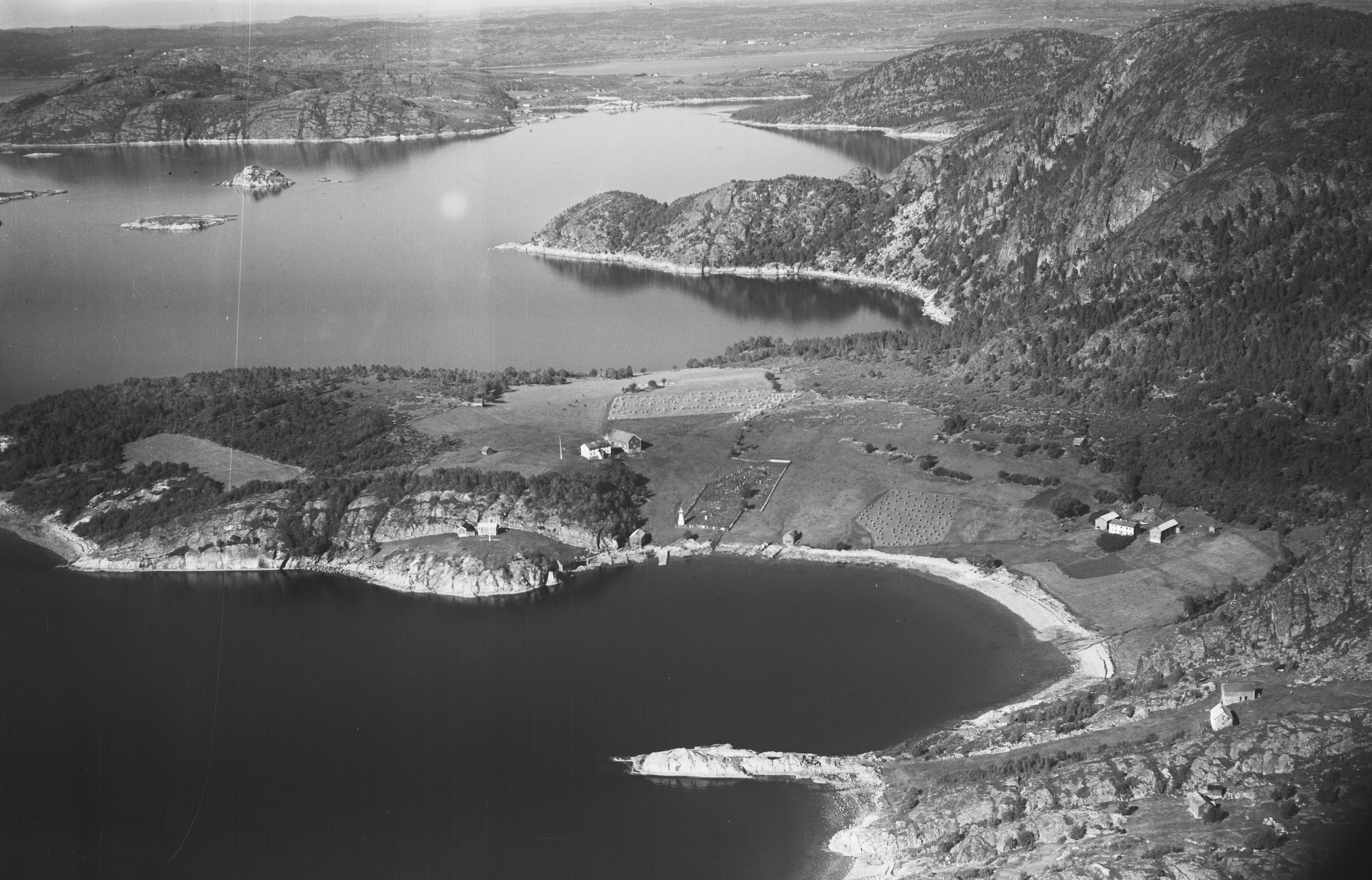 Rottem gravplass i Snillfjord kommune. Widerøe Flyveselskaps flyfoto fra Snillfjord kommune: Rottem.